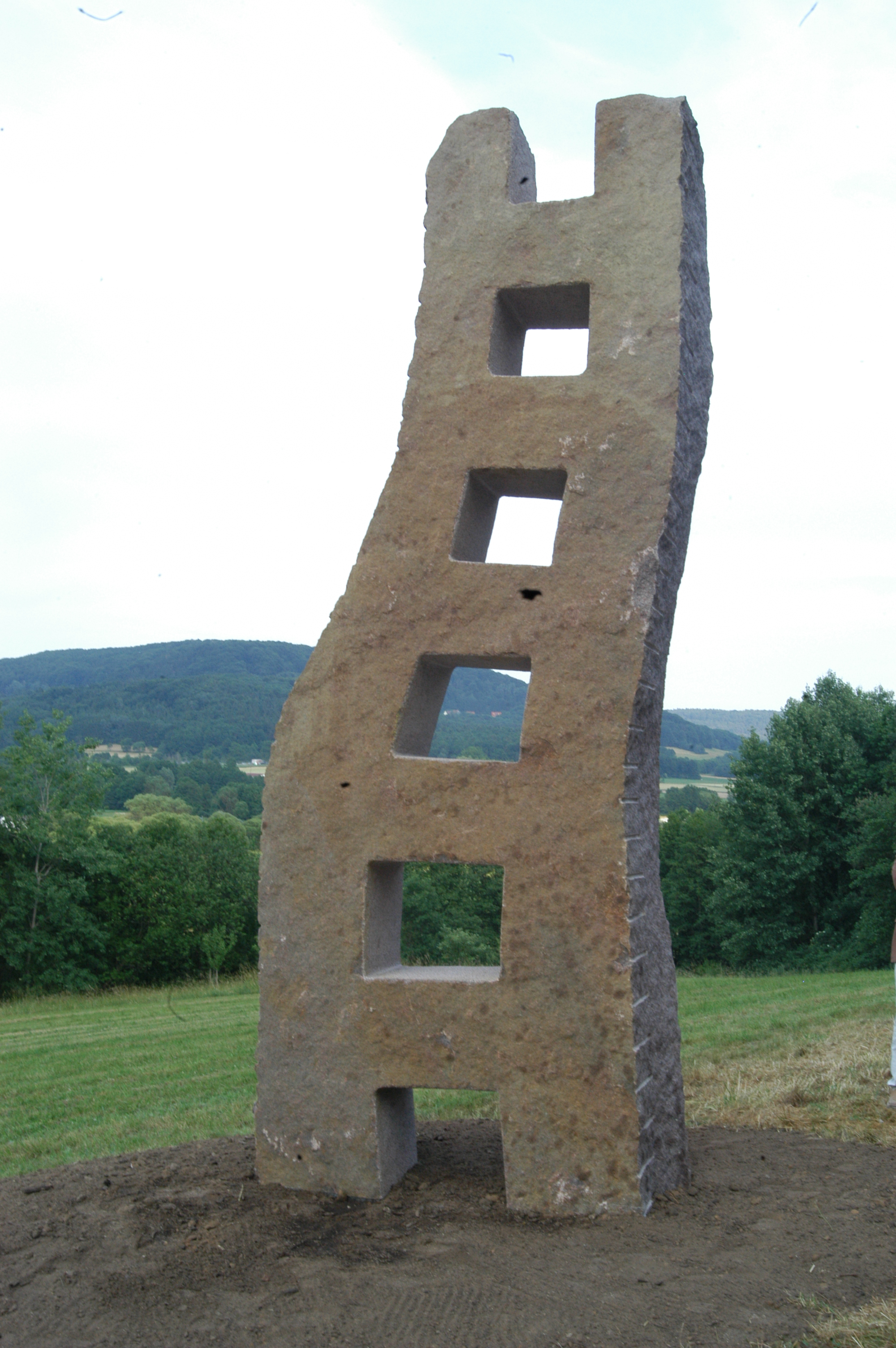 Granite Sculptur "Himmelsleiter" from Huber Maier at the old Ludwigkanal in Berg bei Neumarkt i.d. OPf., Bavaria, Germany